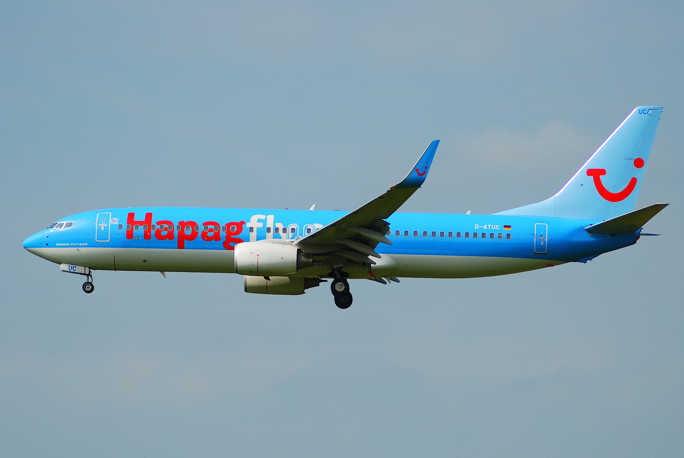 This Boeing 737-8K5 took its first flight on February 2, 2006...(c/n 34684/ 1870)